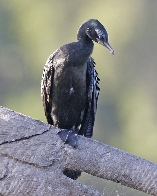 Little Black Cormorant (Phalacrocorax sulcirostris) at Centiennal Park, Sydney, NSW, Australia